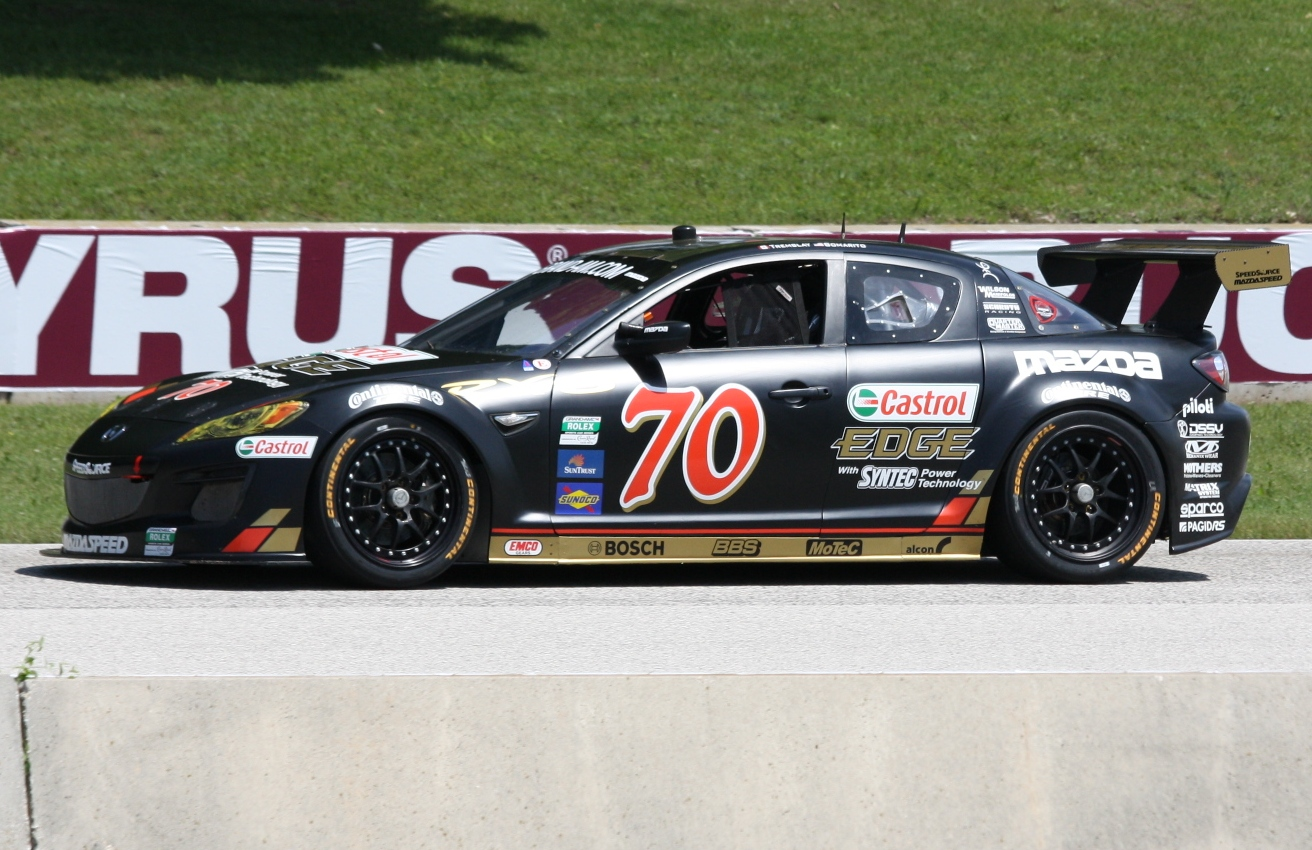 The GT sports car of Jonathan Bomarito and Sylvain Temblay racing at an event at Road America.